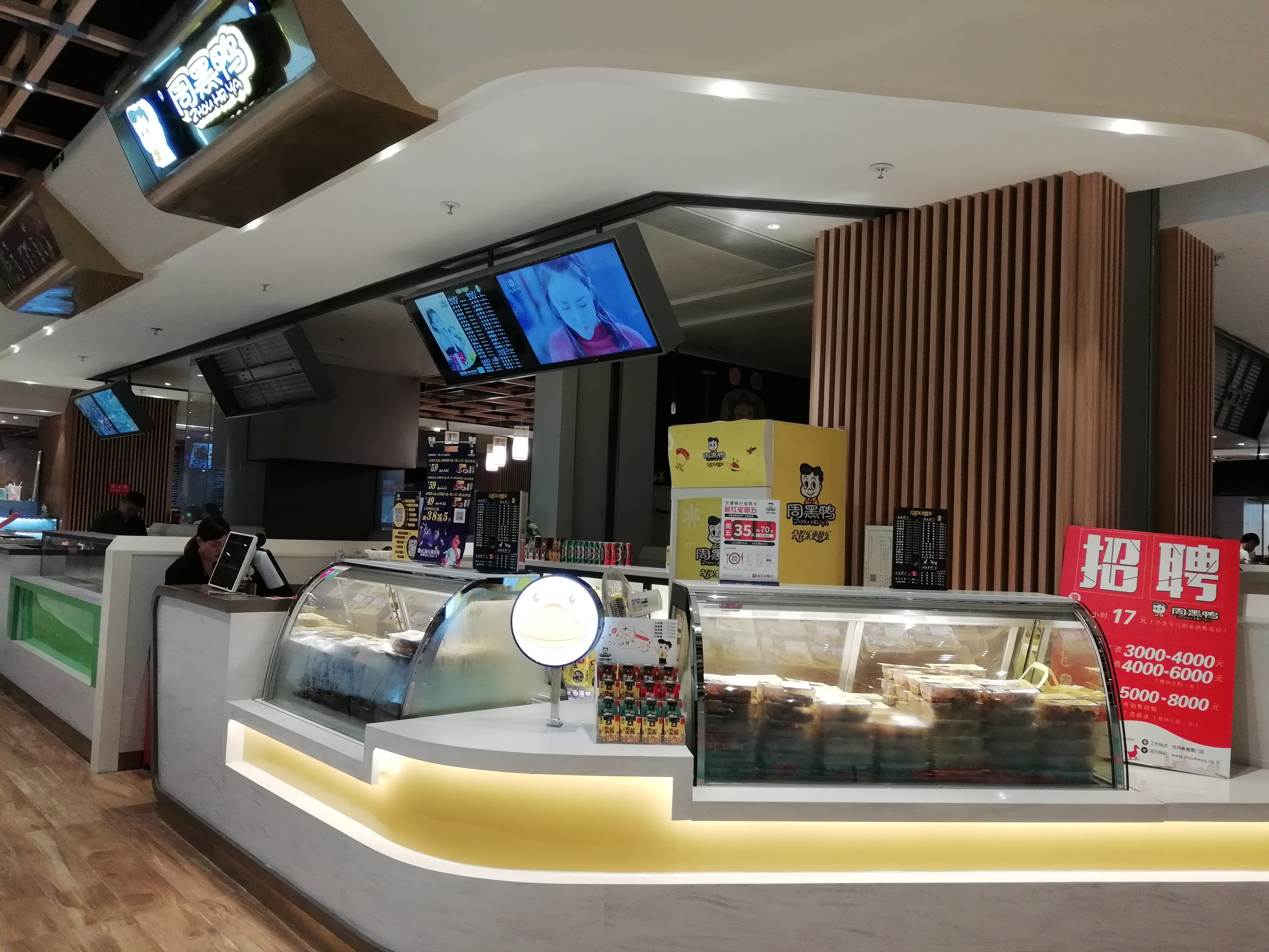 Zhou Hei Ya Store at -1F, Suzhou Center. Just near CoCo Fresh Tea & Juice... 中文（中国大陆）: 周黑鸭位于苏州中心地下一楼的专柜